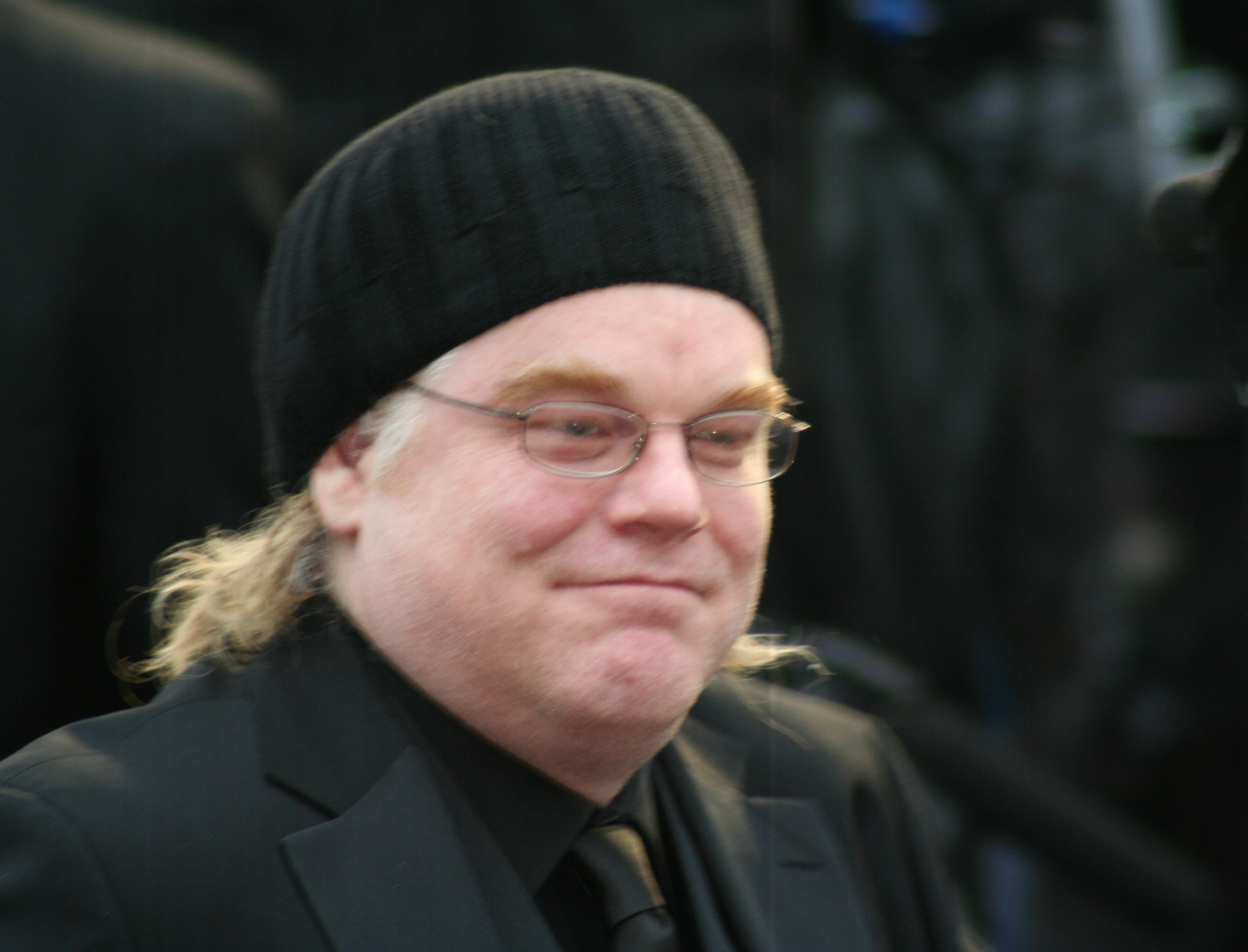 Philip Seymour Hoffman at the 81st Academy Awards